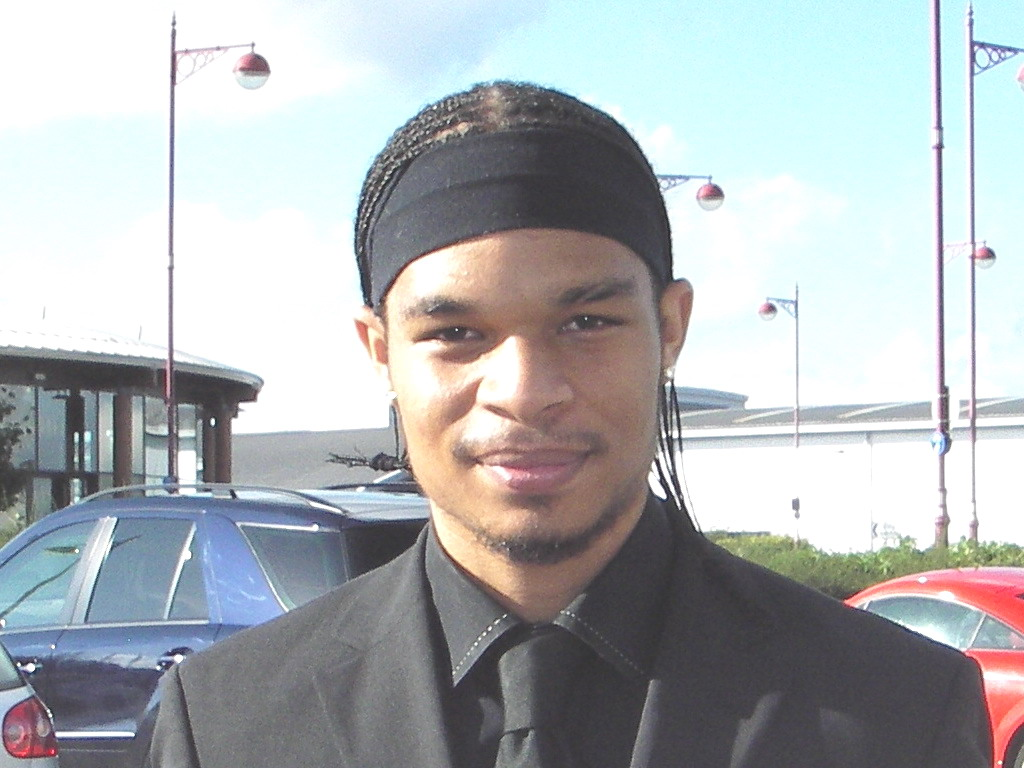 Dean Leacock, Derby County player.